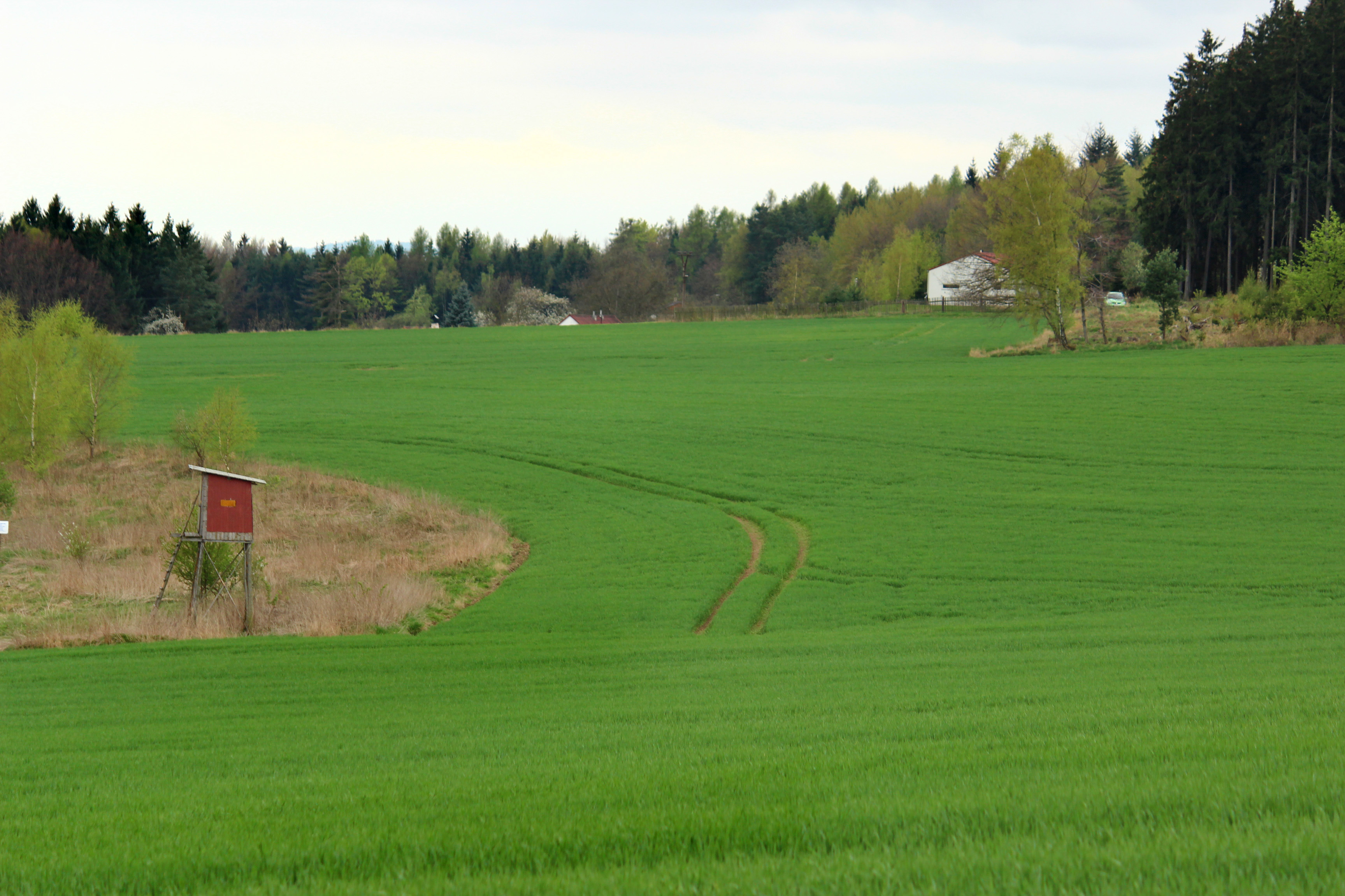 North view to Zálesí, part of Teplýšovice, Czech Republic